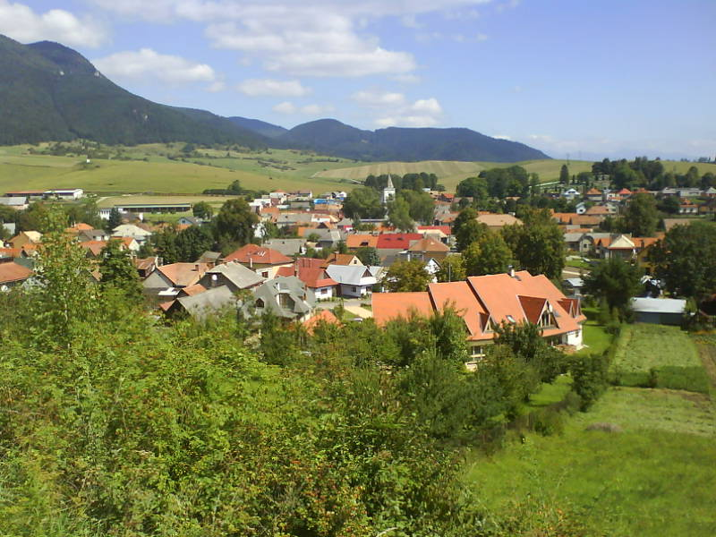 Village Likavka, view from hill Strážnik